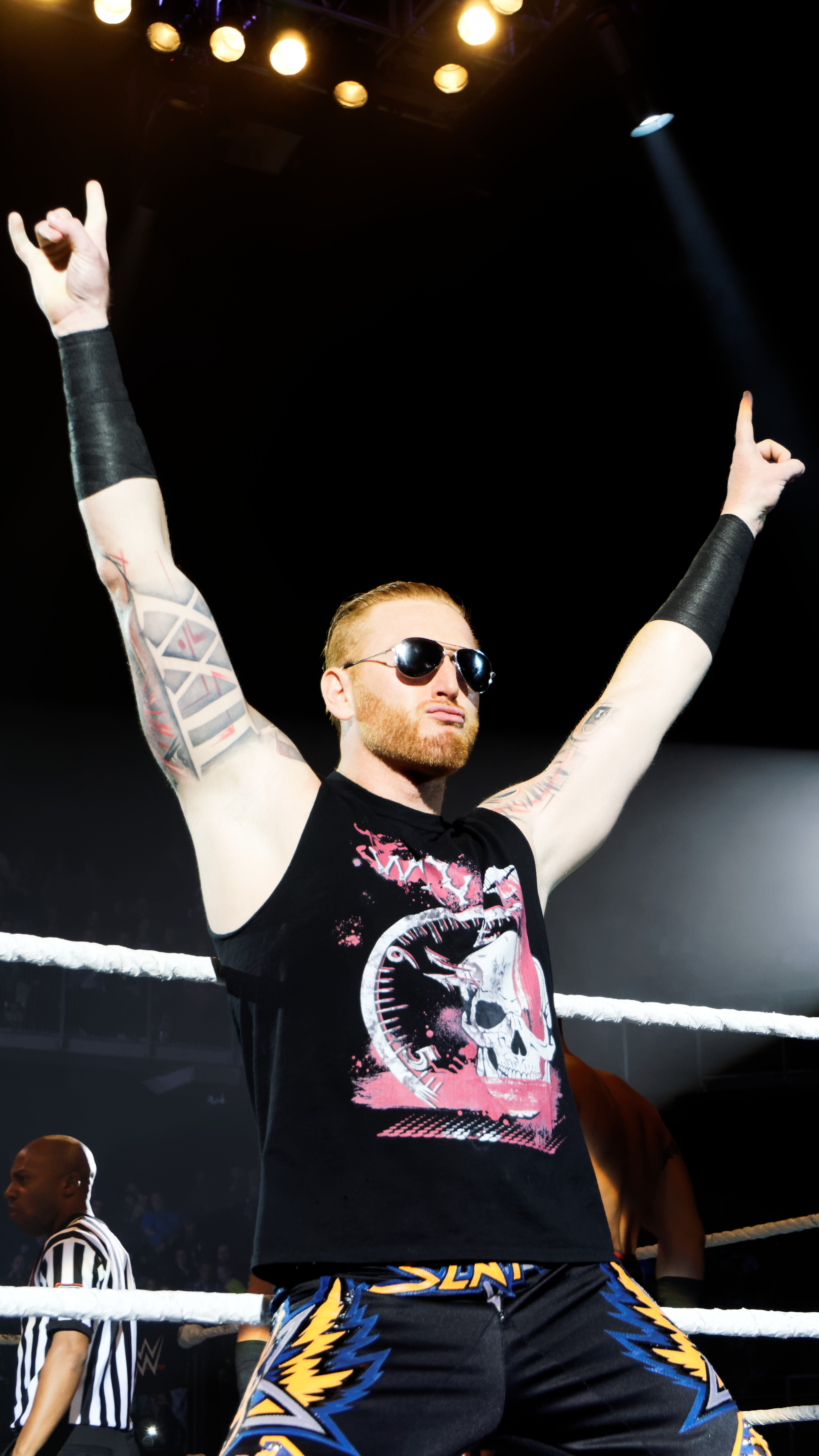 Heath Slater during a live event in 2015.